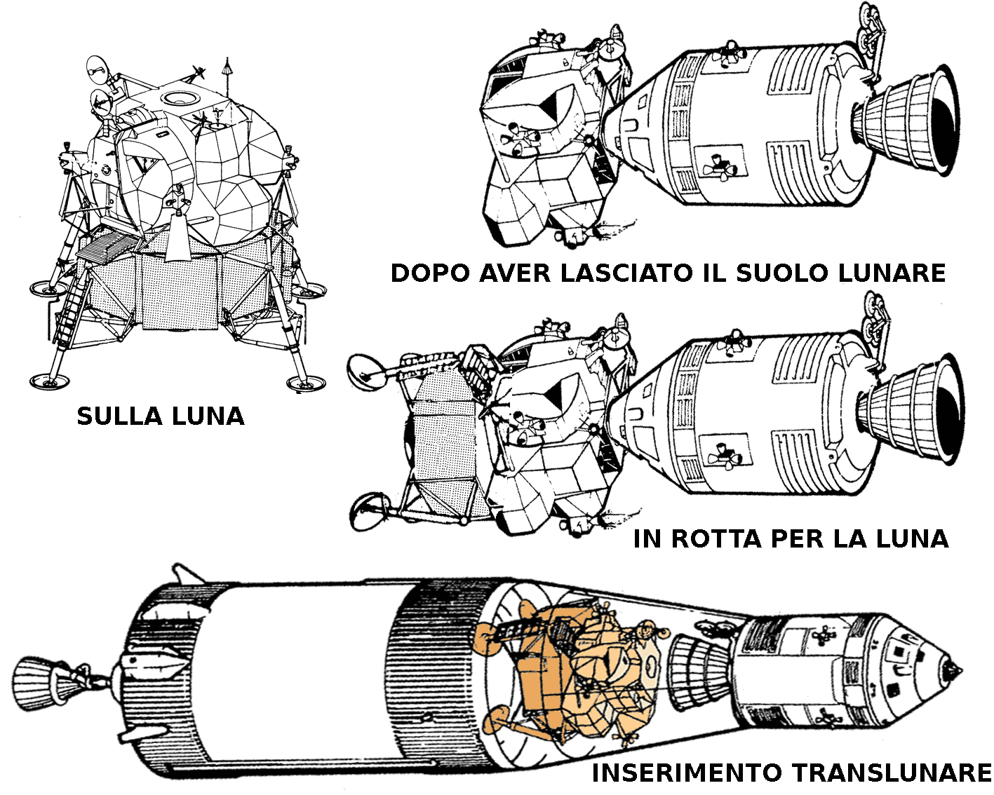 Configuration of the lunar module during an Apollo mission